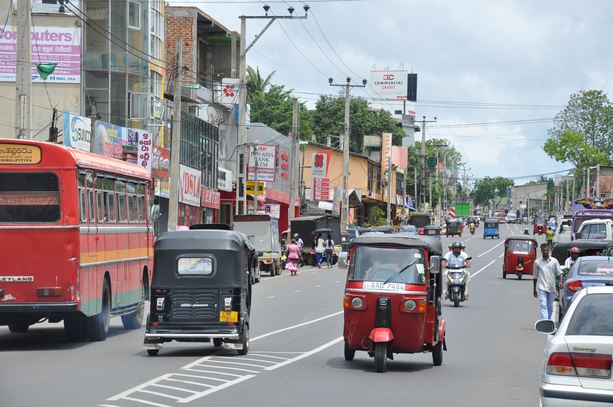 Pallegama-Modarawana Road in downtown Embilipitiya (Ratnapura District, Sabaragamuwa Province, Sri Lanka).